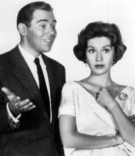 Publicity photo of Elliott Reid and Pat Crowley from the television program Goodyear Theater.